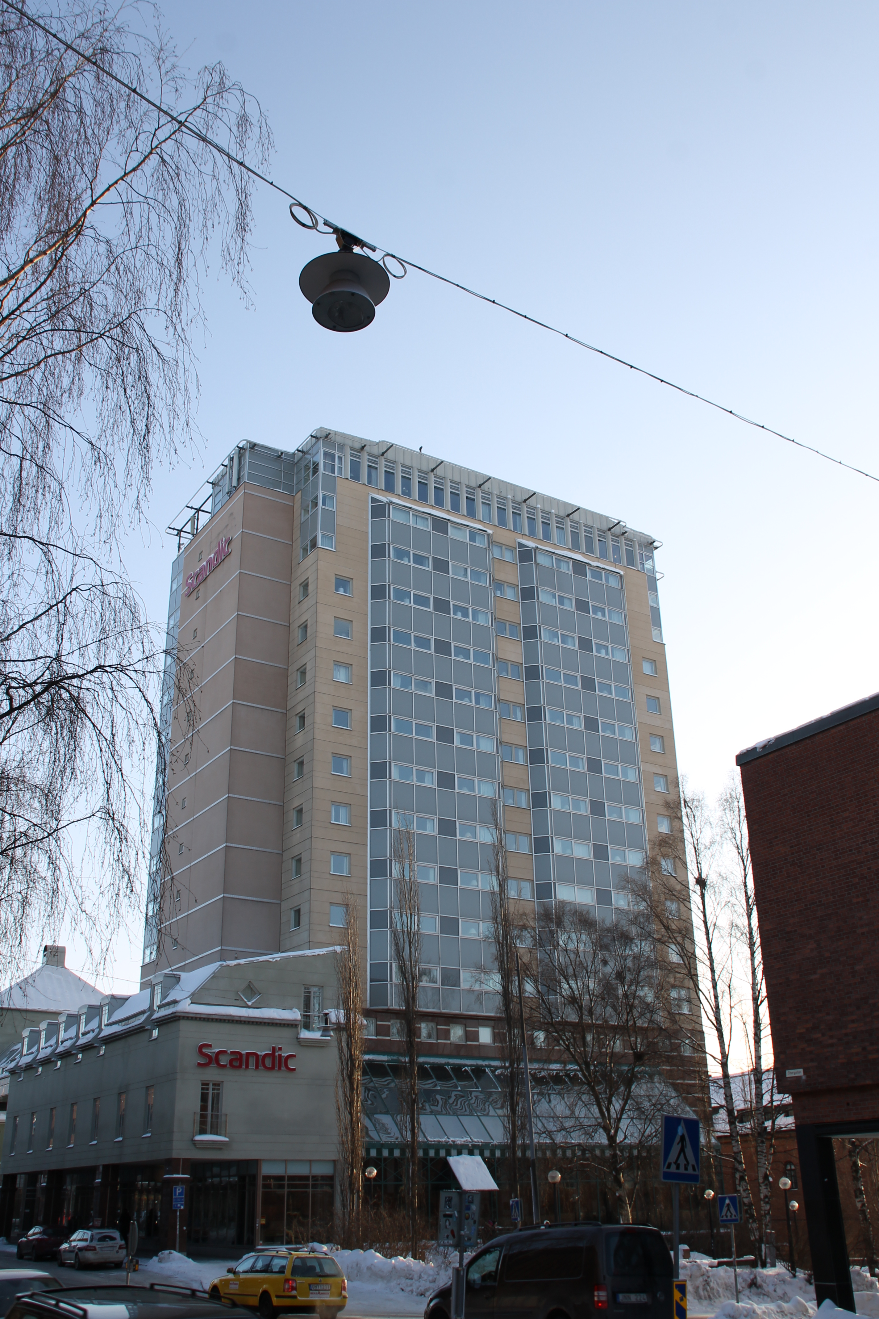 Scandic Hotel Plaza in Umeå, Sweden